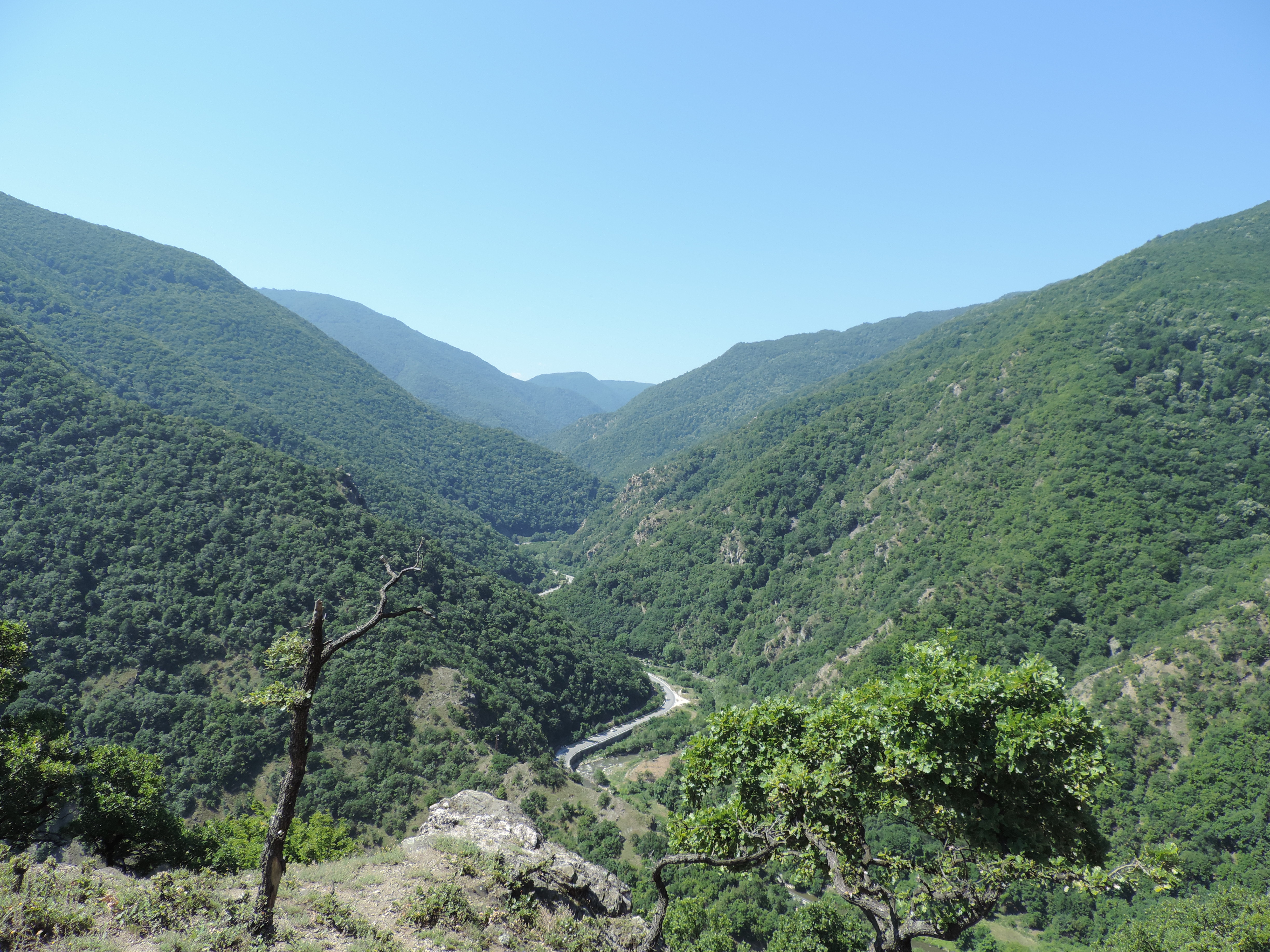 Chepino gorge, Chepinska river, Bulgaria